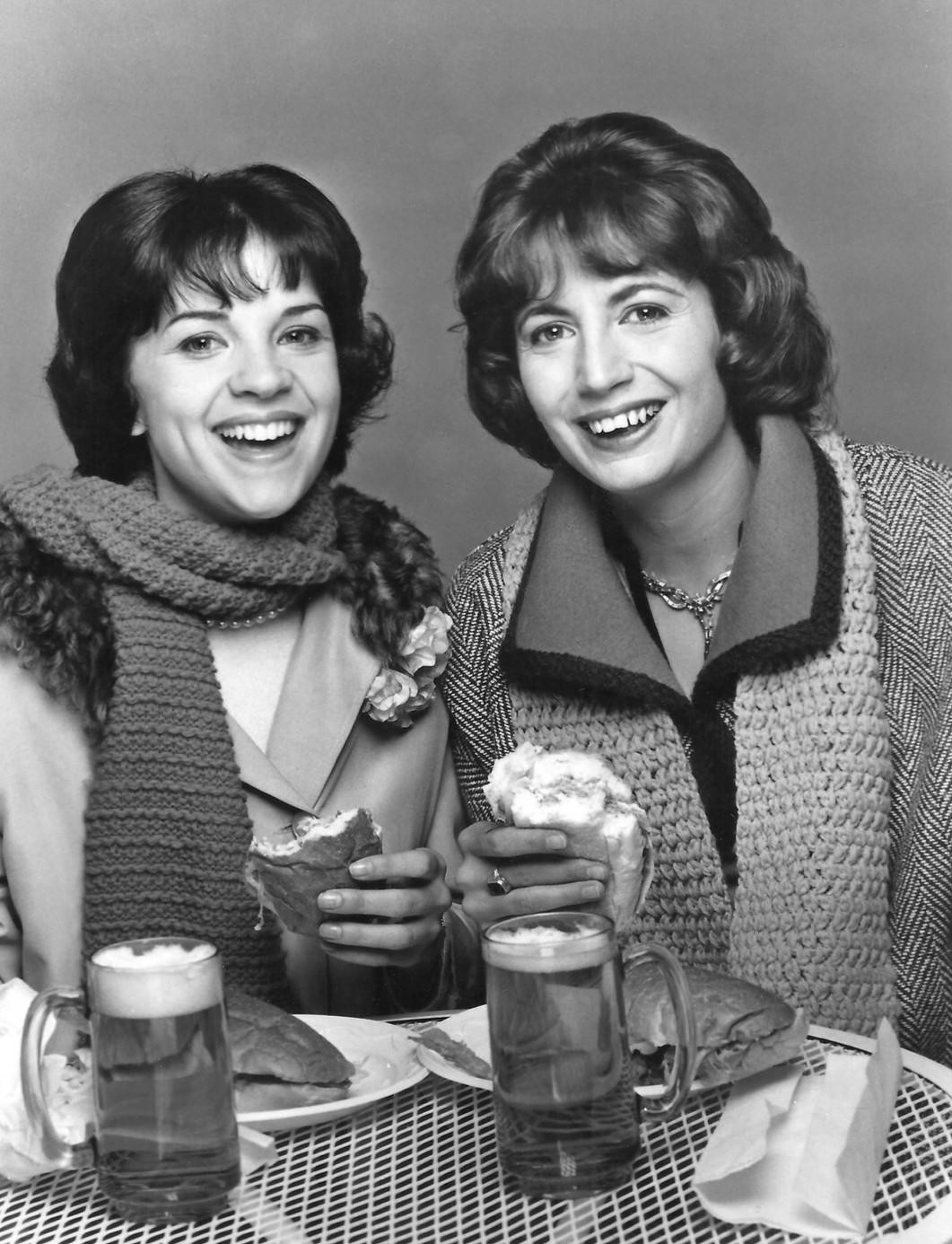 Publicity photo of Cindy Williams and Penny Marshall from the television show Laverne and Shirley.